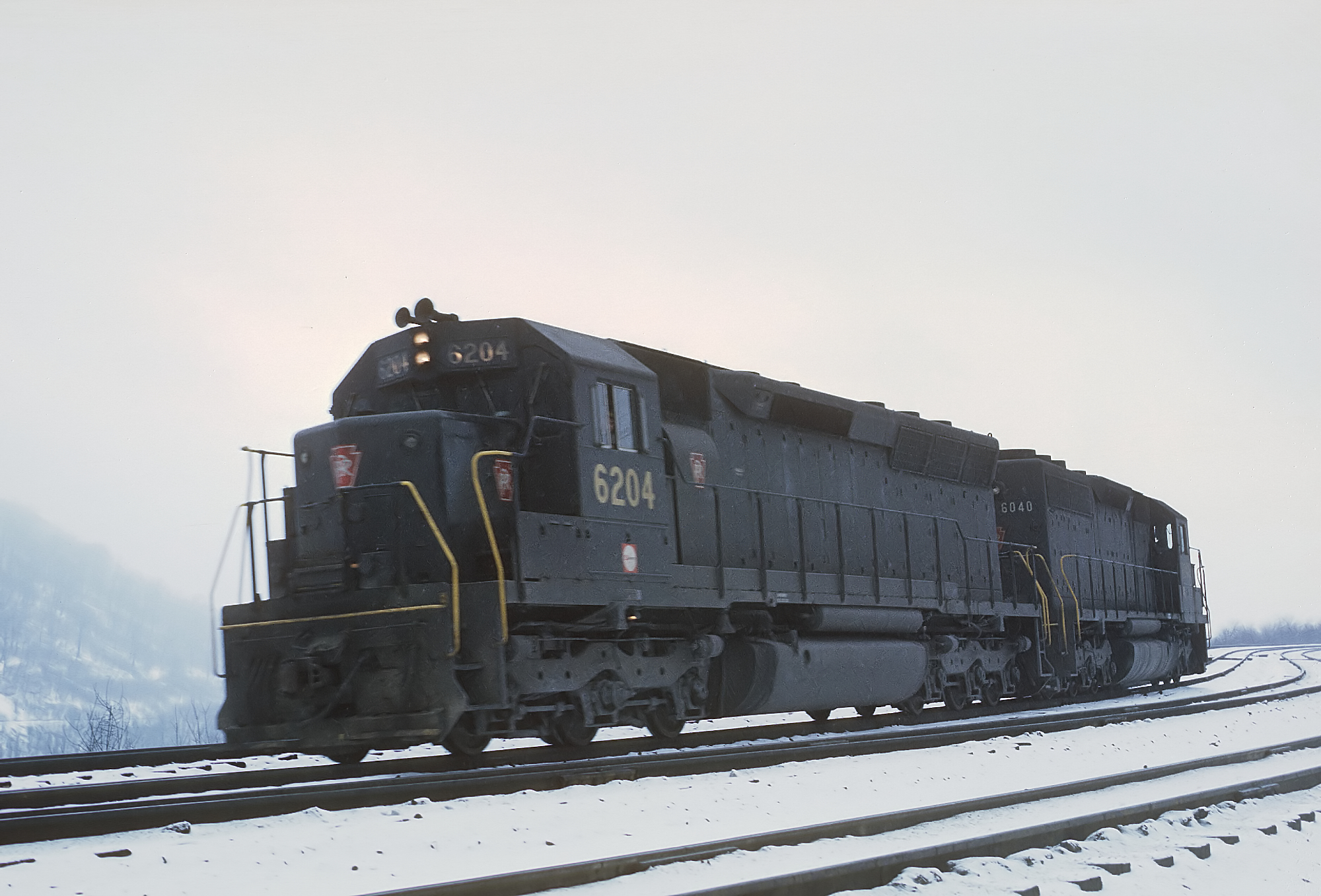 A Roger Puta photograph